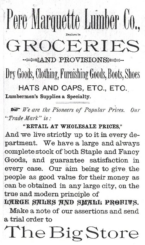 The Big Store originally owned by James Ludington and later owned by Pere Marquette Lumber Company.